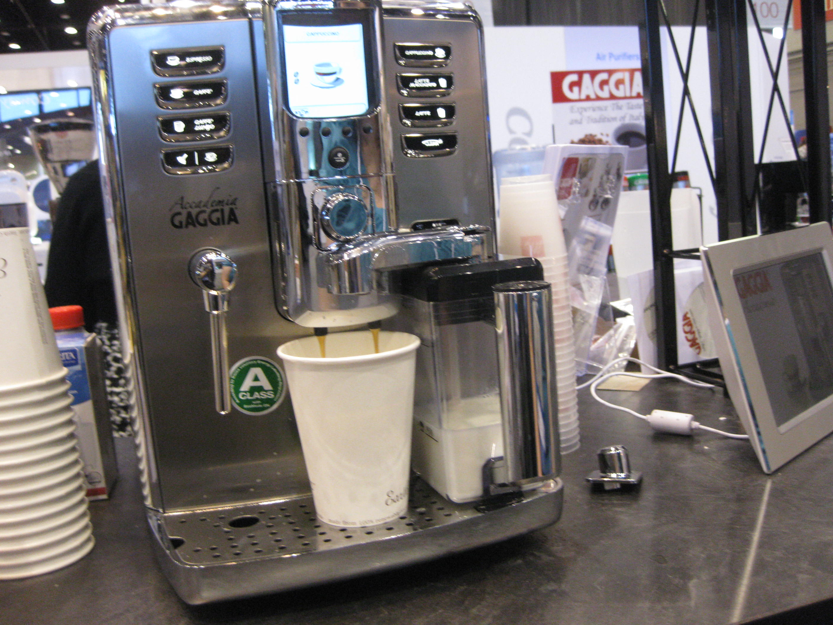 This was the best cup of coffee I have had in a long time! Photo by Elizabeth (table4five) Website